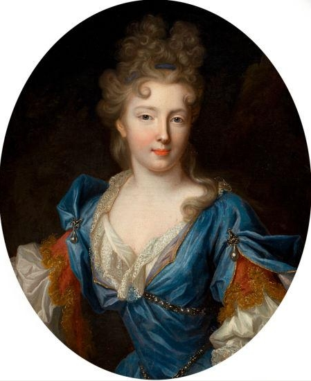 Françoise Marie de Bourbon (1677-1749), wife of Philippe d'Orléans and daughter of Louis XIV of France